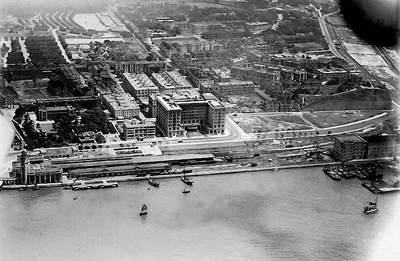 Tsim Sha Tsui, Hong Kong in early 20th century. Date: after 1928 (construction of the Peninsula Hotel) and before 1941 (construction of the Chungking Arcade) or: after 1959 (demolition of the Chungking Arcade) and before 1970 (Whitfield Barracks converted into Kowloon Park). Date: 1931 according to [1]